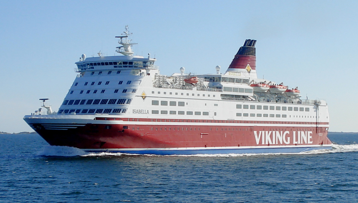 MS Isabella is a Finnish Cruiseferry owned by Viking Line. Picture taken at Archipelago Sea Finland.